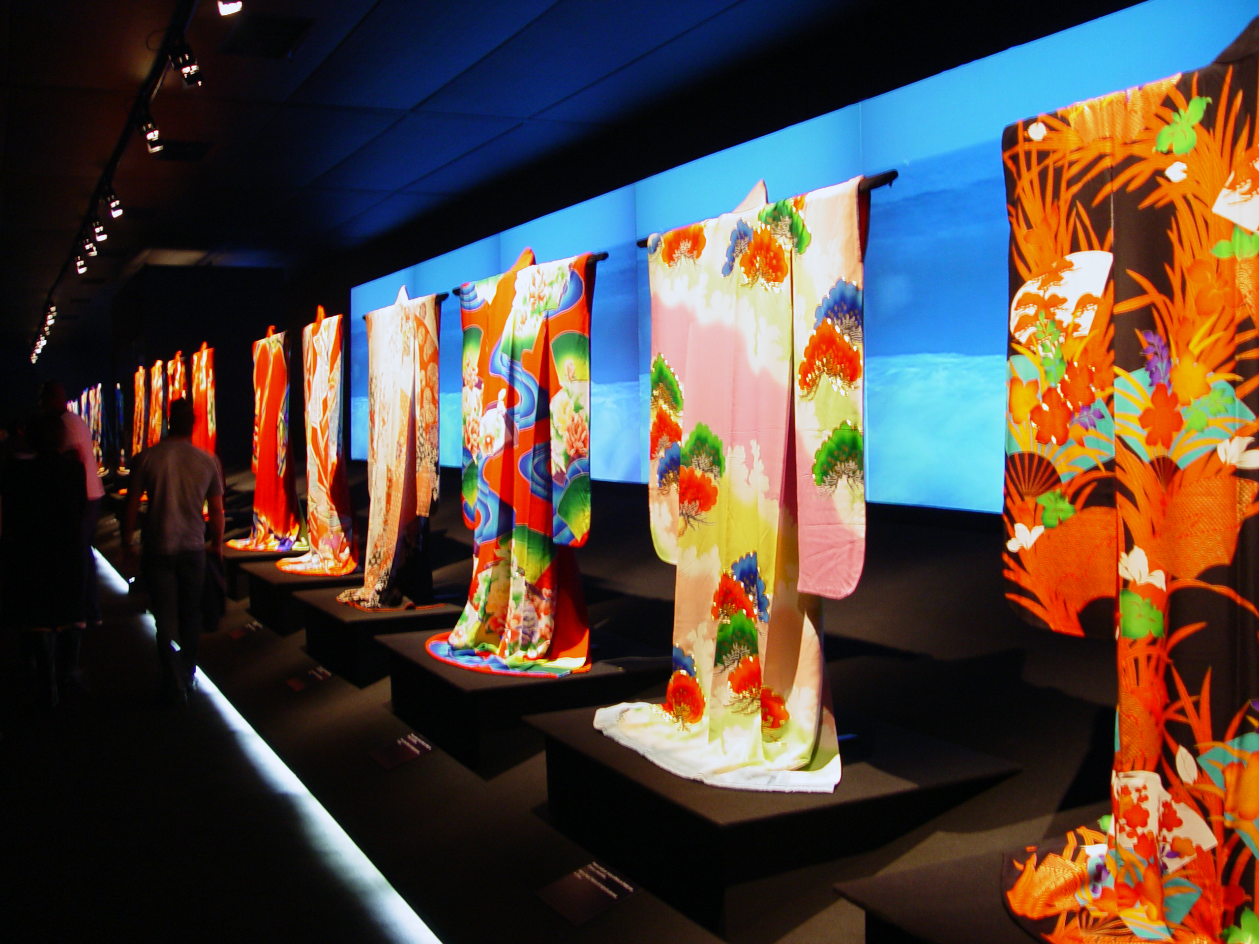 Exposição "Olhar da Tradição" peças do Museu Histórico da Imigração Japonesa no Brasil e do Bunka Gakuen Costume Museum, Tokio.